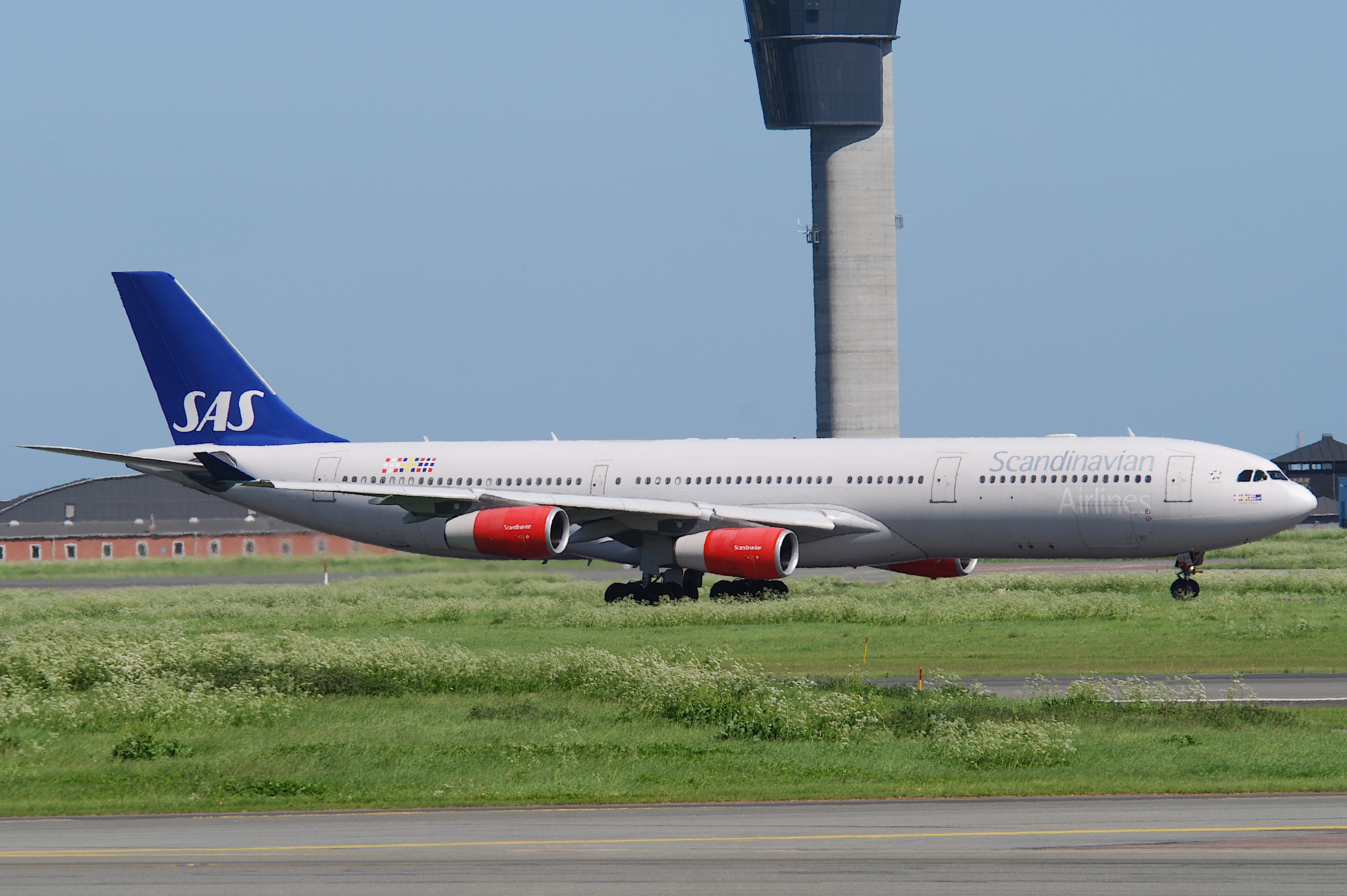 OY-KBA@CPH;03.06.2010/574ea